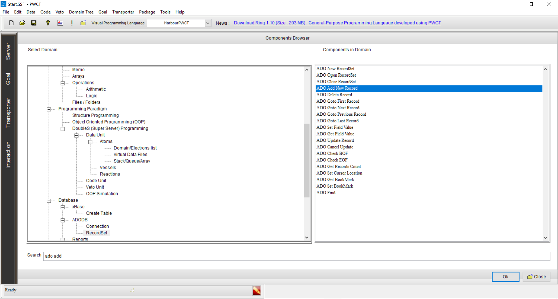 PWCT 1.9 - Components Browser